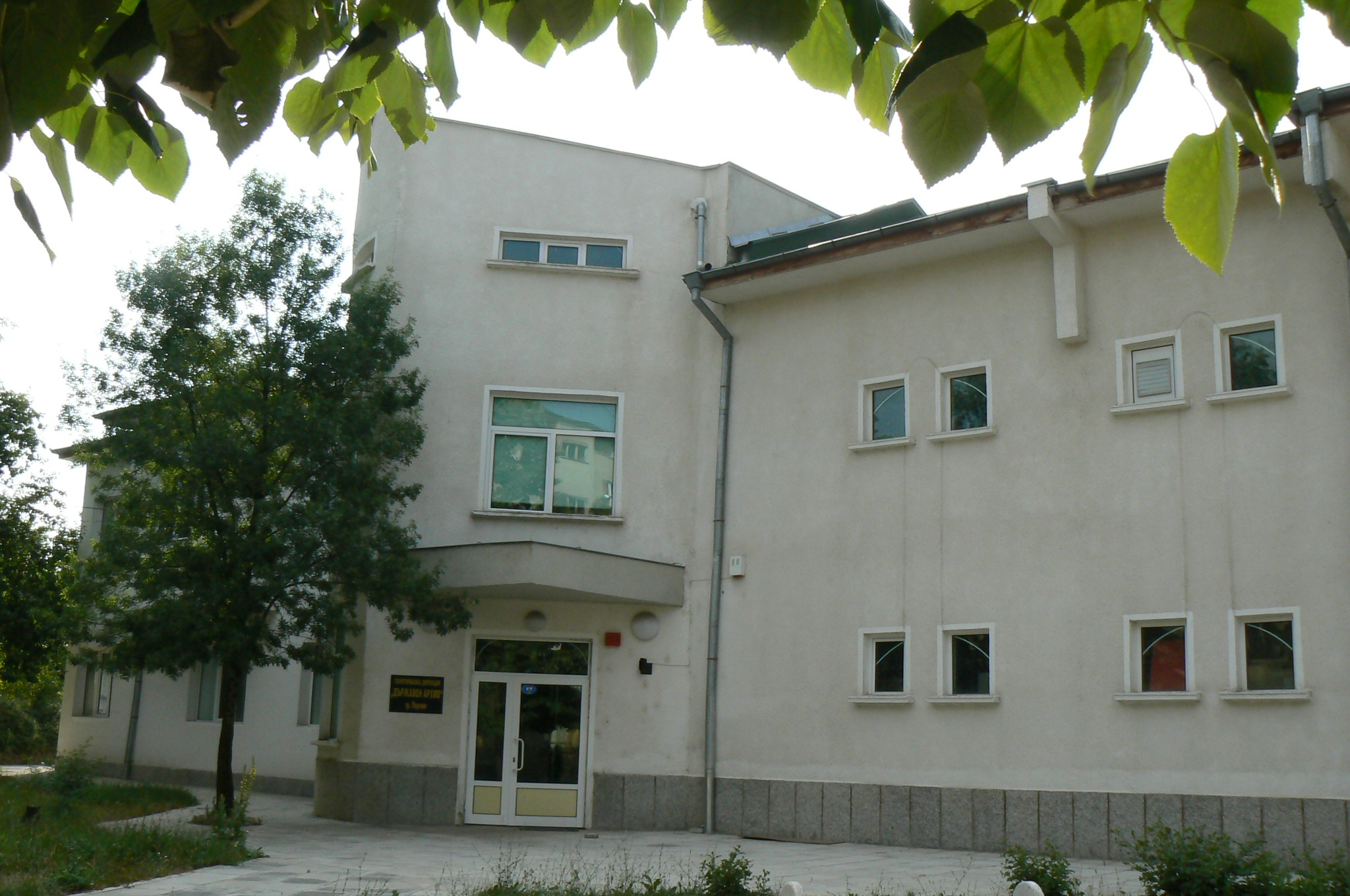 Regional administration of the Public Record Office. Pernik, Bulgaria